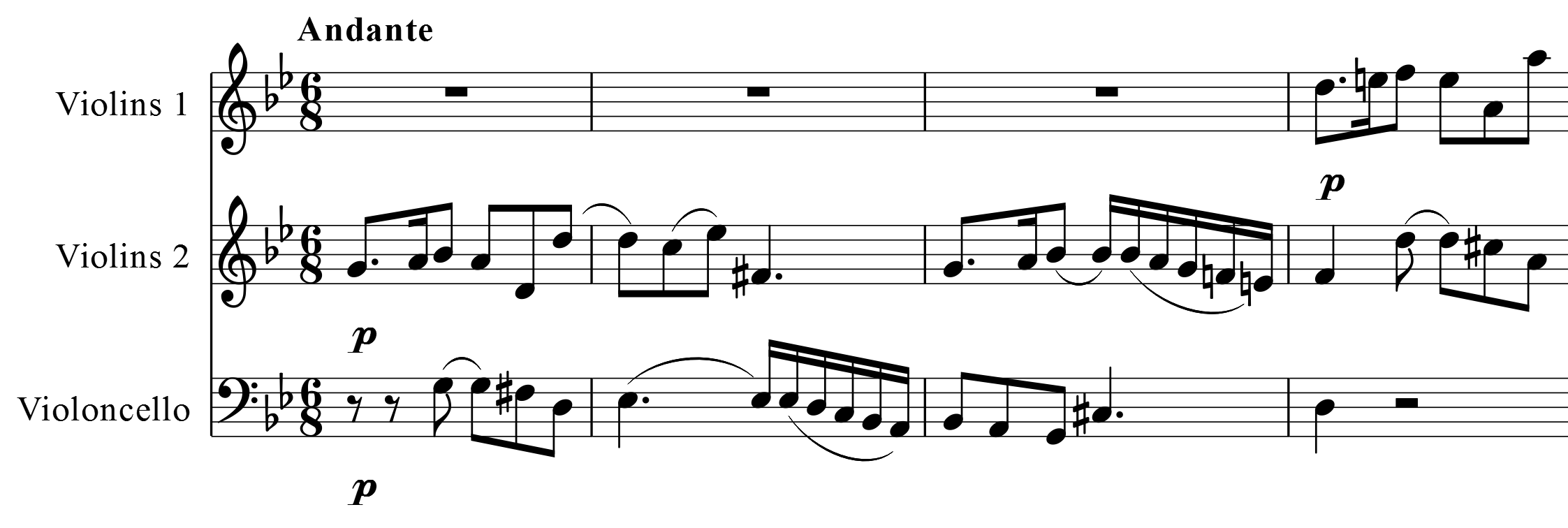 Joseph Haydn, Symphony Hoboken I:108, third movement, bar 1-4